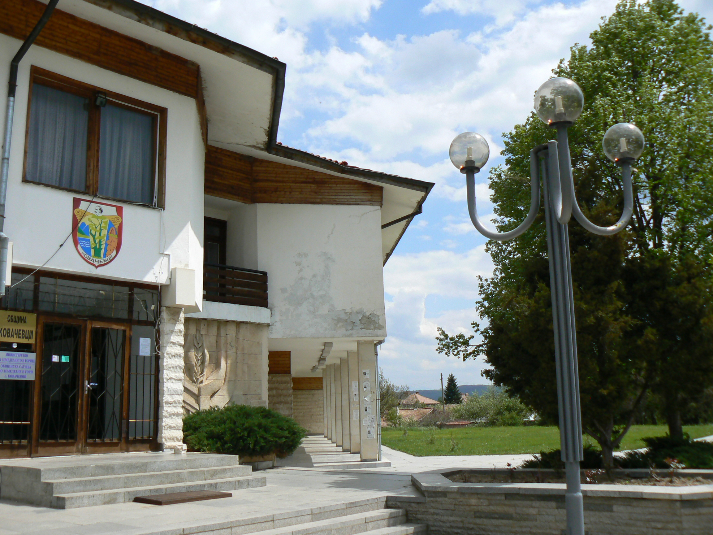 Building of Kovachevtsi municipality, village Kovachevtsi, Pernik district, Bulgaria